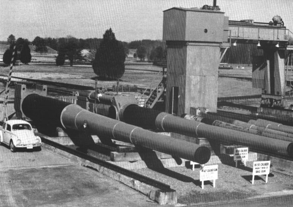 A display at the U.S. Navy Dahlgren Naval Weapons Facility (now Dahlgren Naval Surface Warfare Center) in Virginia (USA), showing the 18 inch/47 (45.7 cm) Mark "A" (far left), and a 16 inch/50 (40.6 cm) Mark 7 gun, as used on the Iowa-class, is just to its right. Both of these weapons fired projectiles heavier than the Volkswagen Beetle next to it. Just to the right of these guns is a 8 inch/55 (20.3 cm) Mark 16 used on the Des Moines-class heavy cruisers. Further to the right is one of the 20.3 cm/60 SK C/34 guns taken from the forward turret of the German heavy cruiser Prinz Eugen, which was allocated to the USA as a war prize at the end of the Second World War.